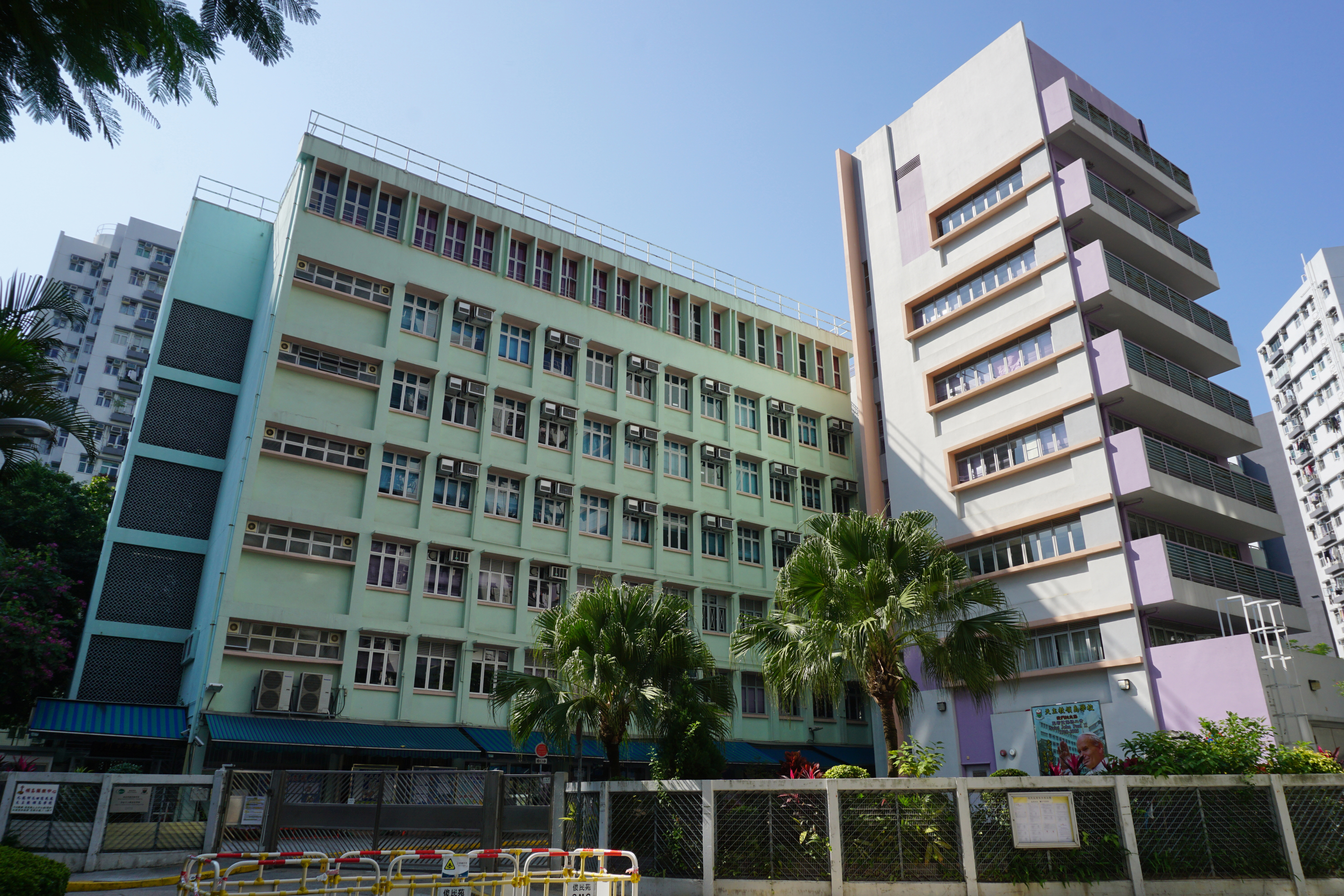 Ling To Catholic Primary School in Ho Man Tin, Hong Kong.